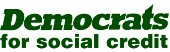 Registered logo of the Democrats for social credit, a New Zealand political party